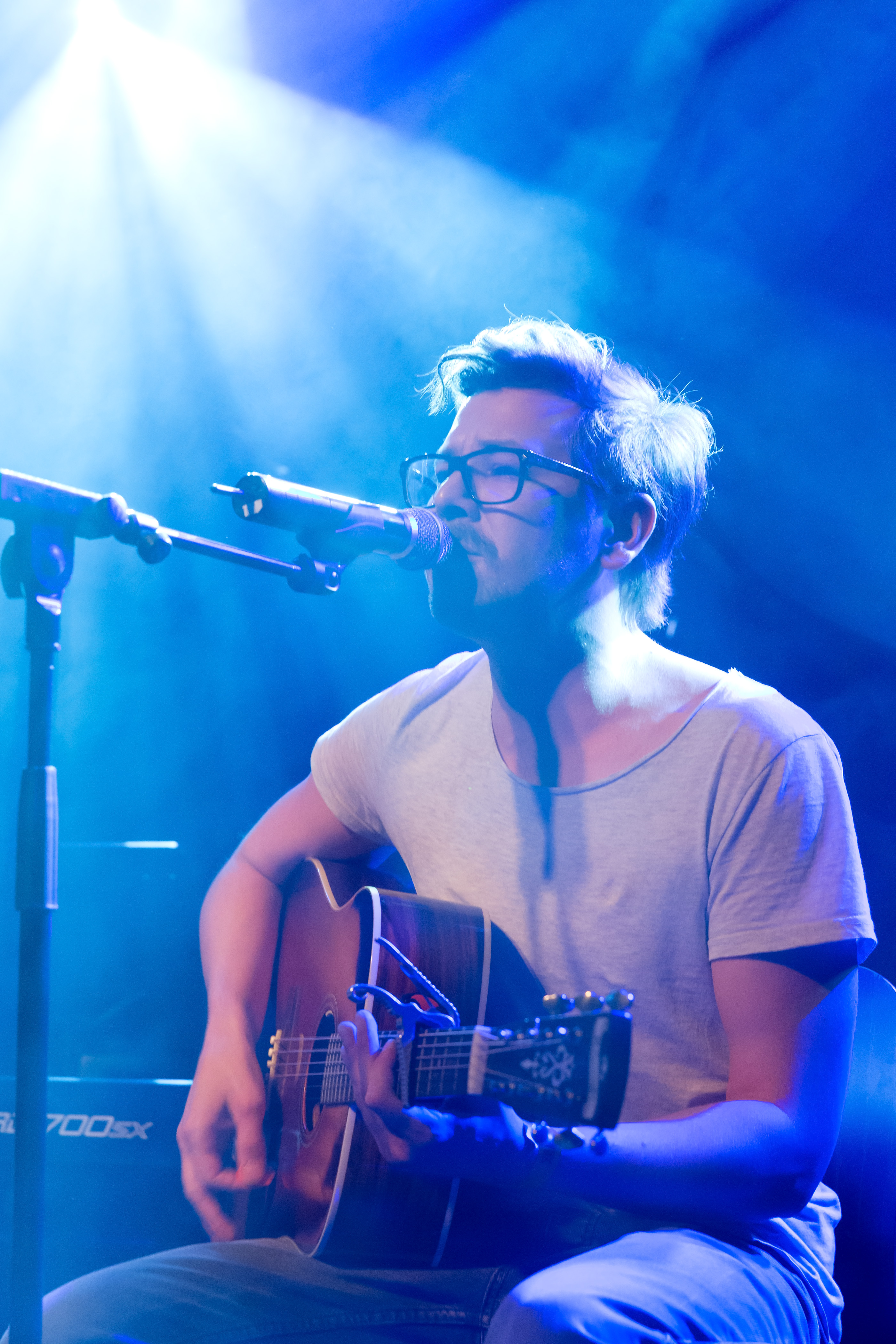 Lemo with Lukas Hillebrand, support at Clara Blumes release concert for the album Here Comes Everything at WUK in Vienna, Austria.